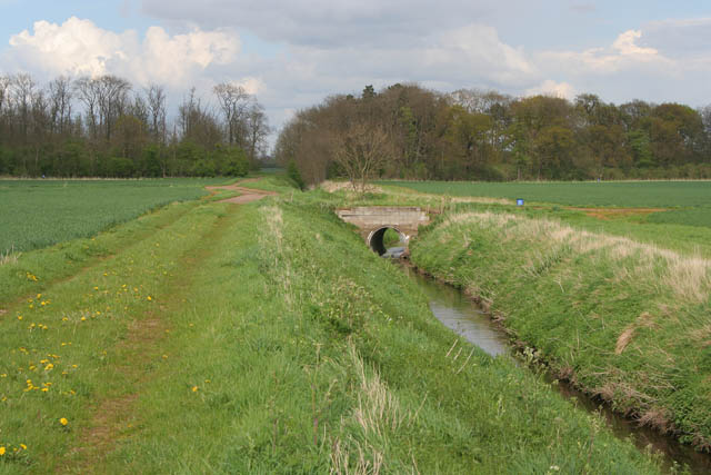 Evedon Wood and the Old River Slea. This track allows for easy walking through Evedon Wood and across Haverholme Park 781919 towards Haverholme Priory. The surfaced part of the track turns across the river here and heads away towards Evedon Mill, 491891